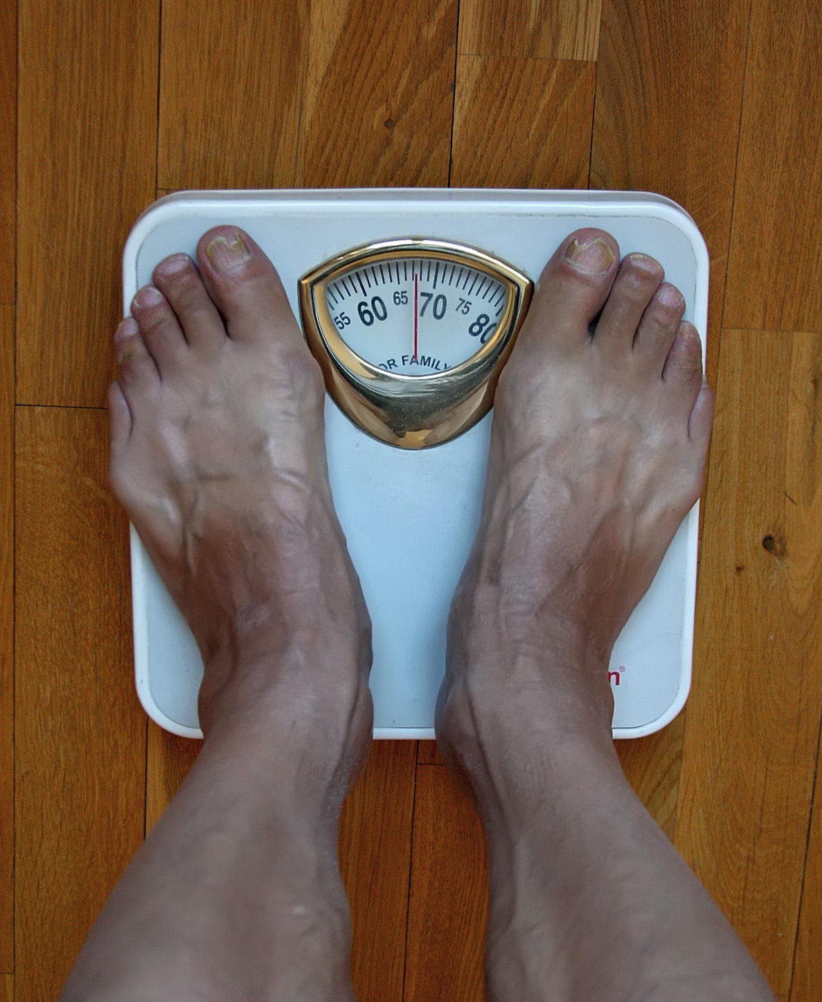 My weight 67 kg